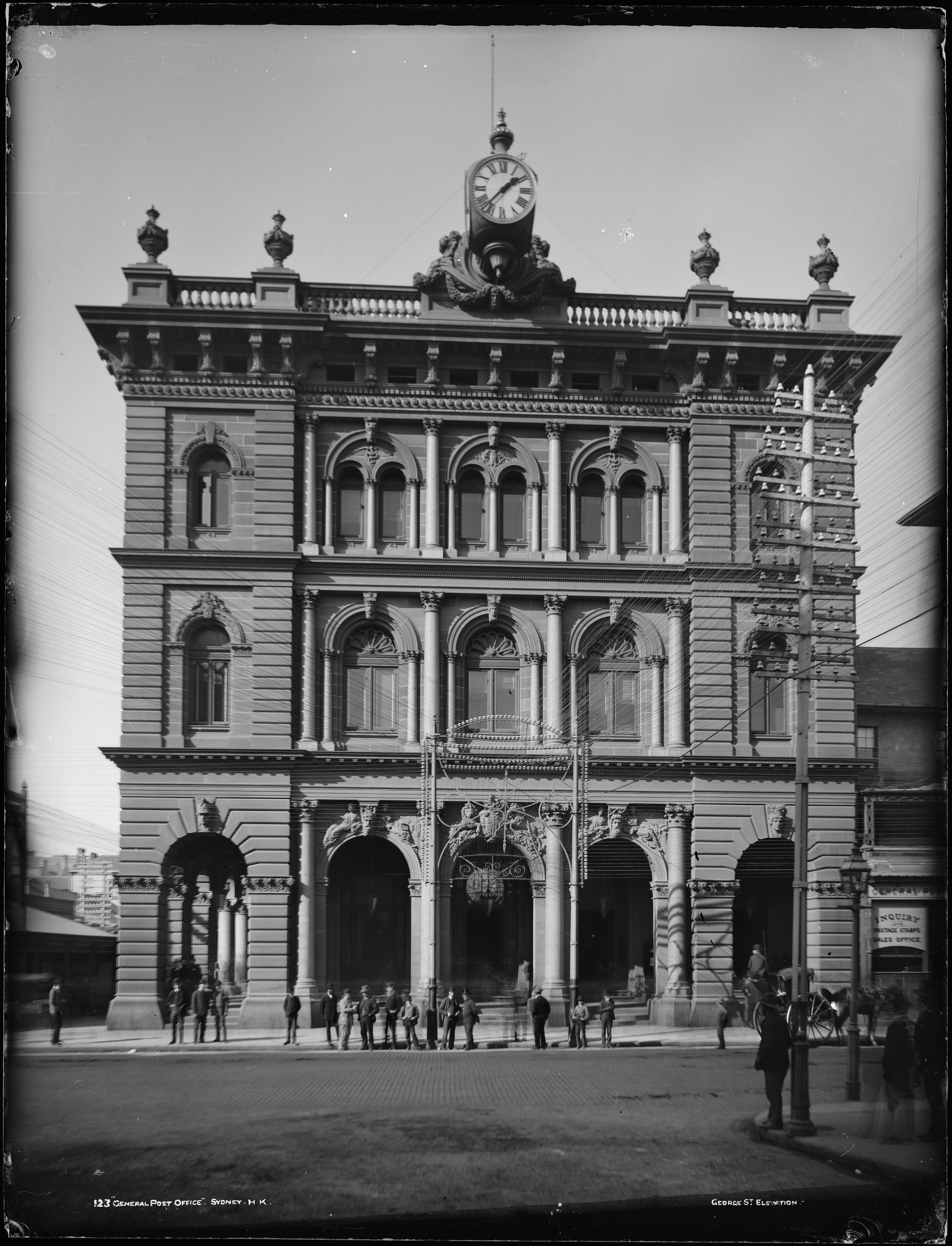 General Post Office Sydney